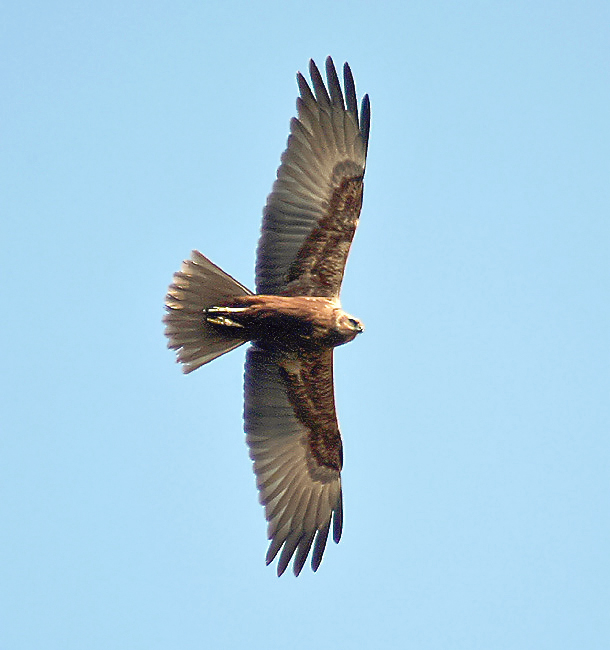 Eurasian Marsh Harrier Circus aeruginosus at Hodal in Faridabad District of Haryana, India.